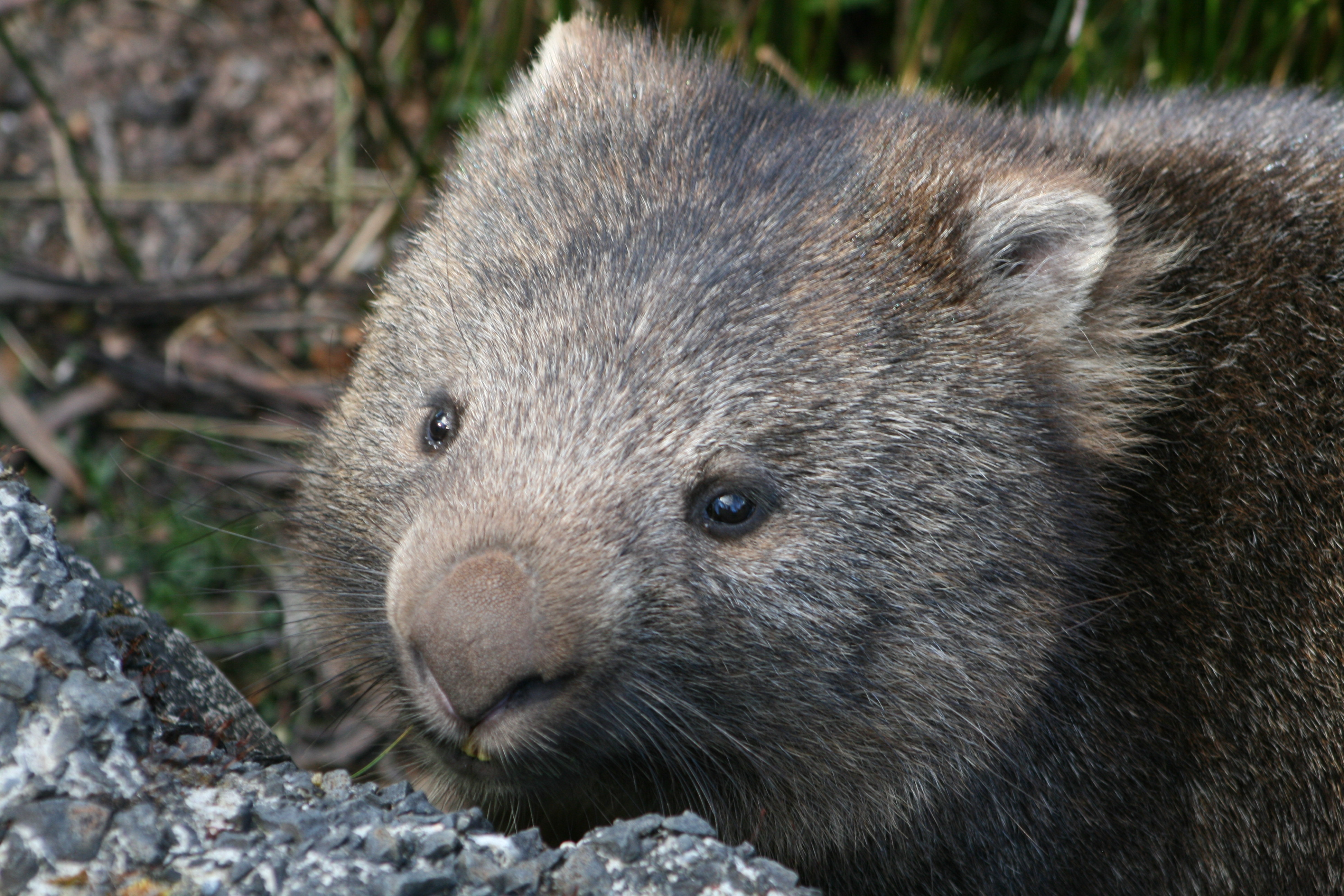 Wombat (Vombatus ursinus), Cradle Mt Ntal Park, Tasmania, Australia